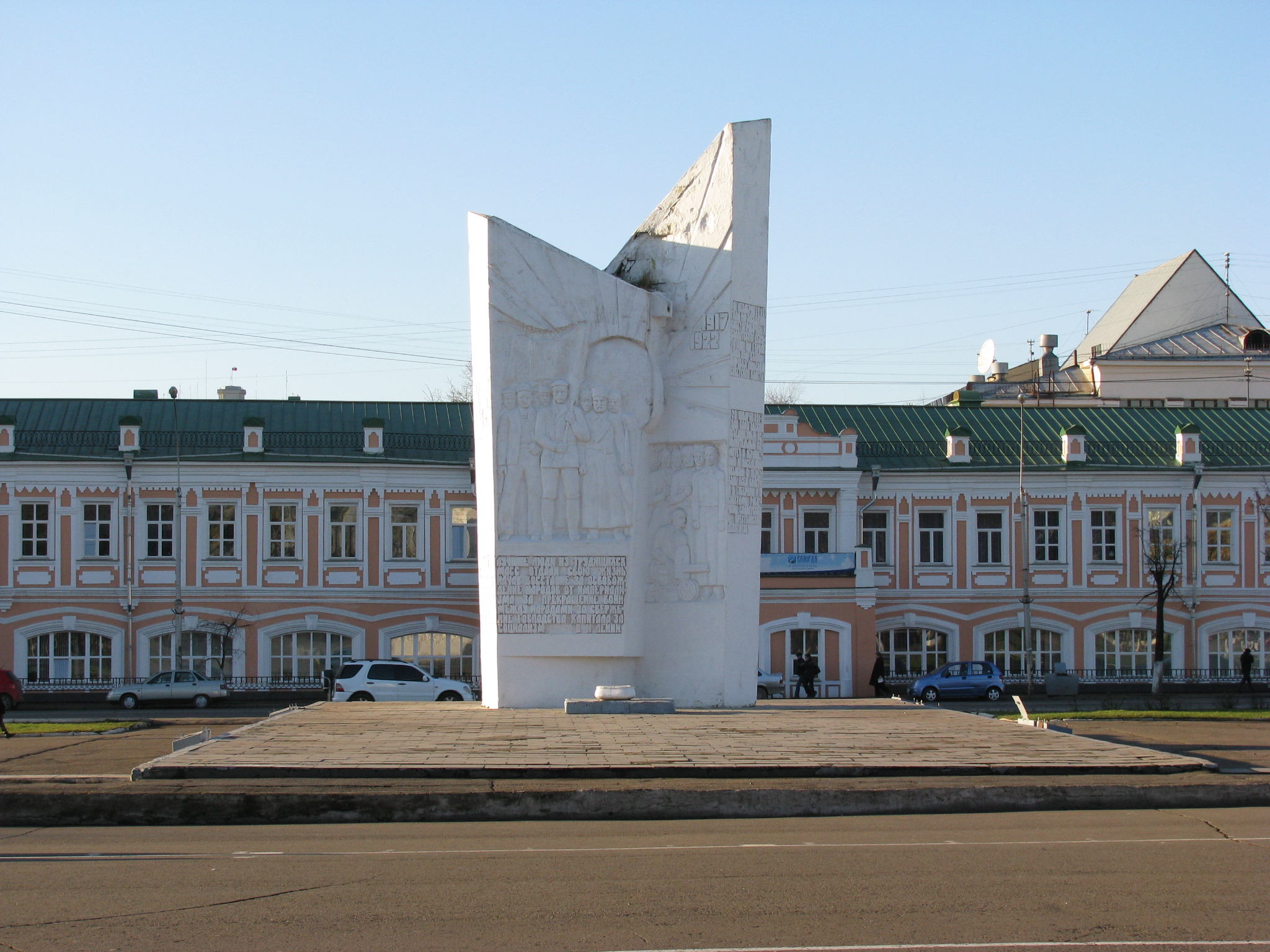 "Tooth" at Revolution square in Vologda